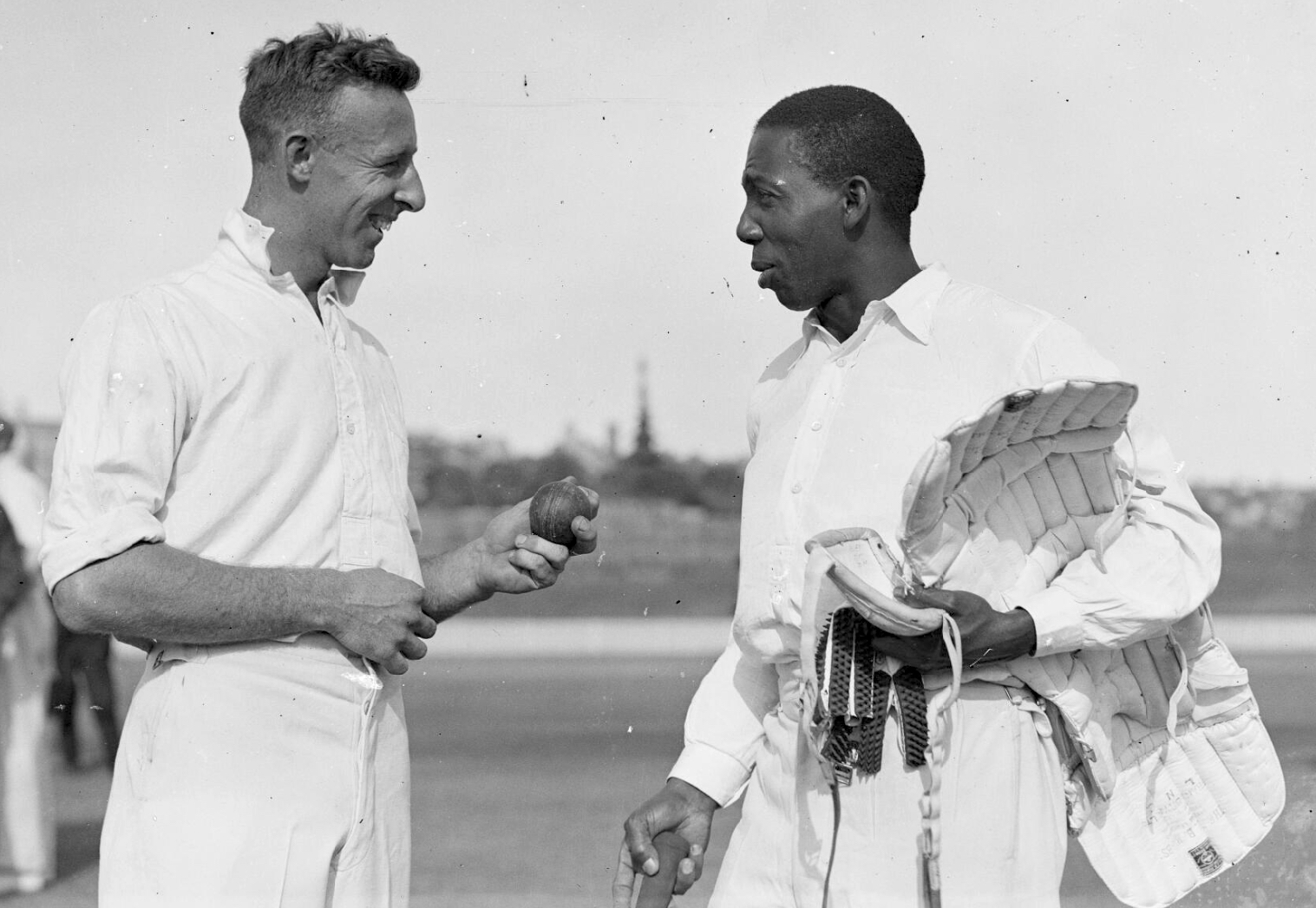 Australian cricketer Bill Hunt with West Indian cricketer Learie Constantine during the West Indian cricket team's tour of Australia in the 1930–31 season.